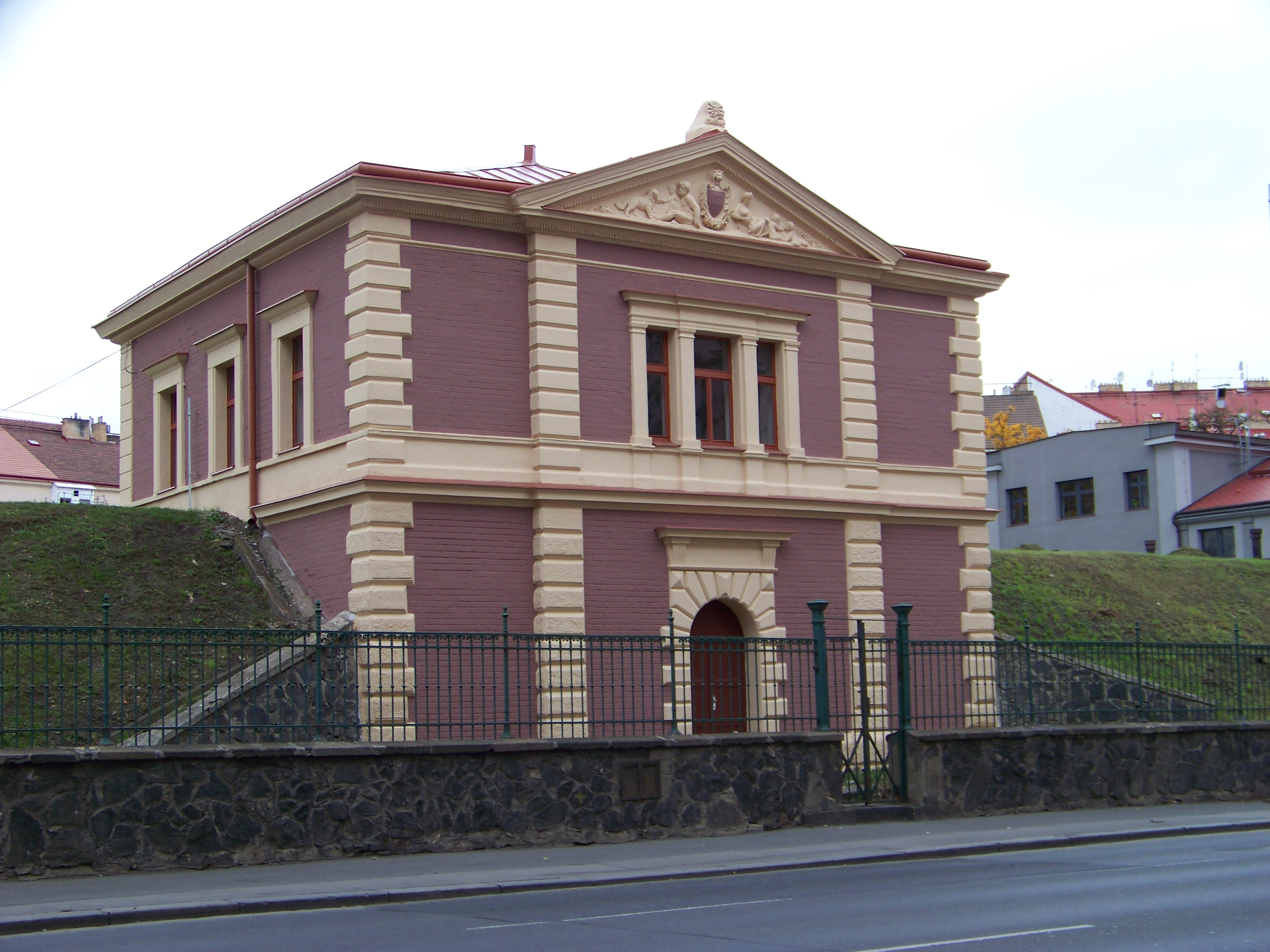 Prague-New Town, the Czech Republic. Sokolská street, a building of the ground water tank. - OpenStreetMap(Info)